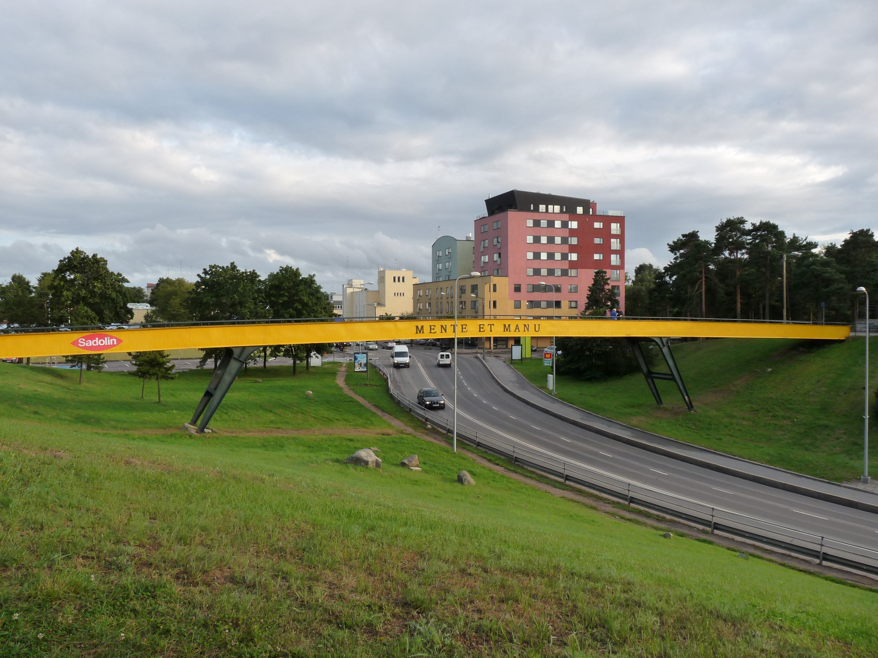 Mente et Manu bridge in Nõmme.